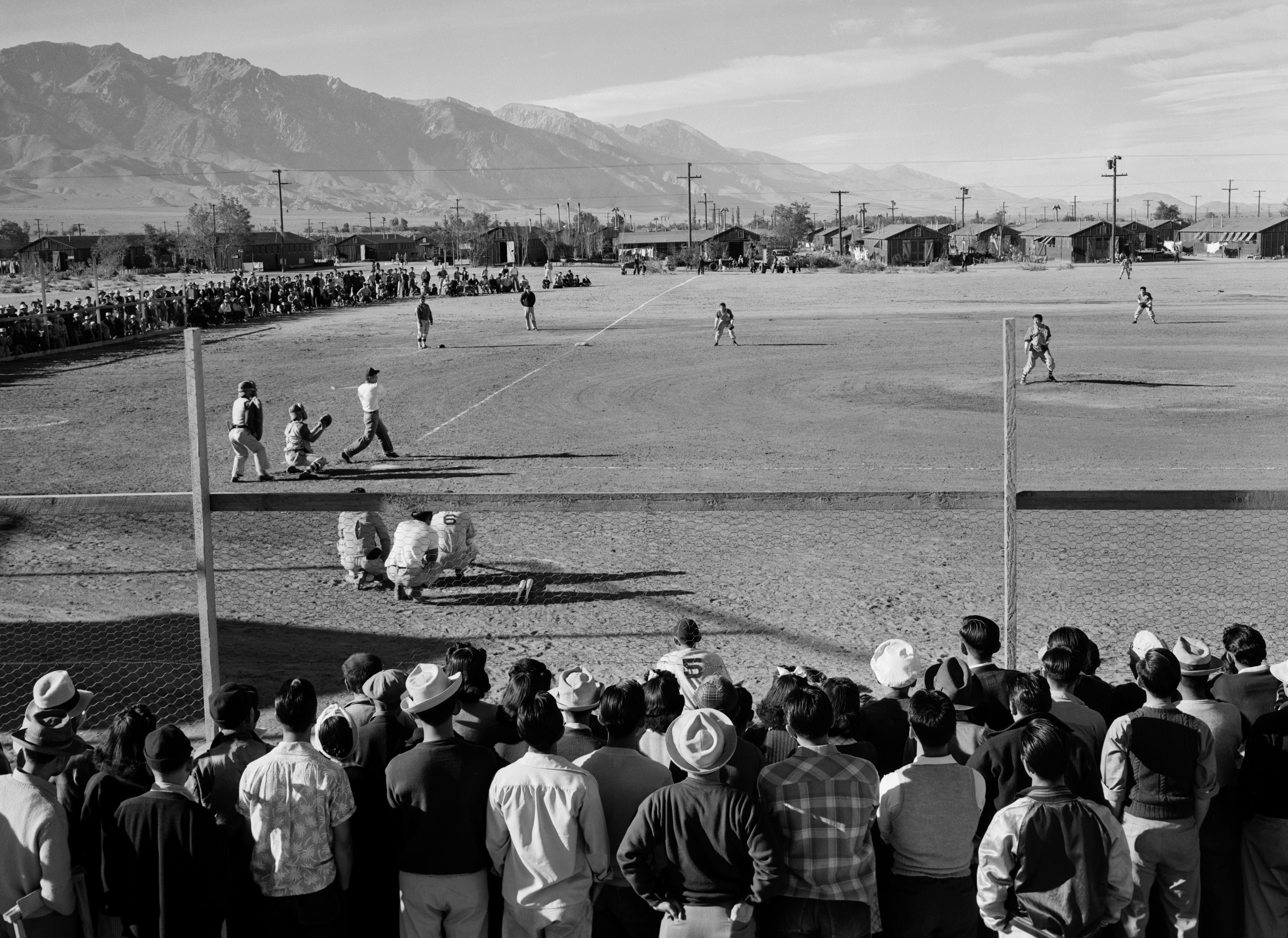 Ansel Adams: Baseball game at Manzanar War Relocation Center, Owens Valley, California, 1943. Summary: Japanese Americans observe an amateur baseball game in progress; one-story buildings and mountains in the background. Seventh in a series of pictures from Ansel Adams' stay at the Japanese-American relocation camp in 1943.